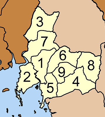 Map of Ao Luek district, Krabi province, Thailand, with the communes (tambon) numbered. Ao Luek Tai (อ่าวลึกใต้) Laem Sak (แหลมสัก) Na Nuea (นาเหนือ) Khlong Hin (คลองหิน) Ao Luek Noi (อ่าวลึกน้อย) Ao Luek Nuea (อ่าวลึกเหนือ) Khao Yai (เขาใหญ่) Khlong Ya (คลองยา) Banklang (บ้านกลาง)